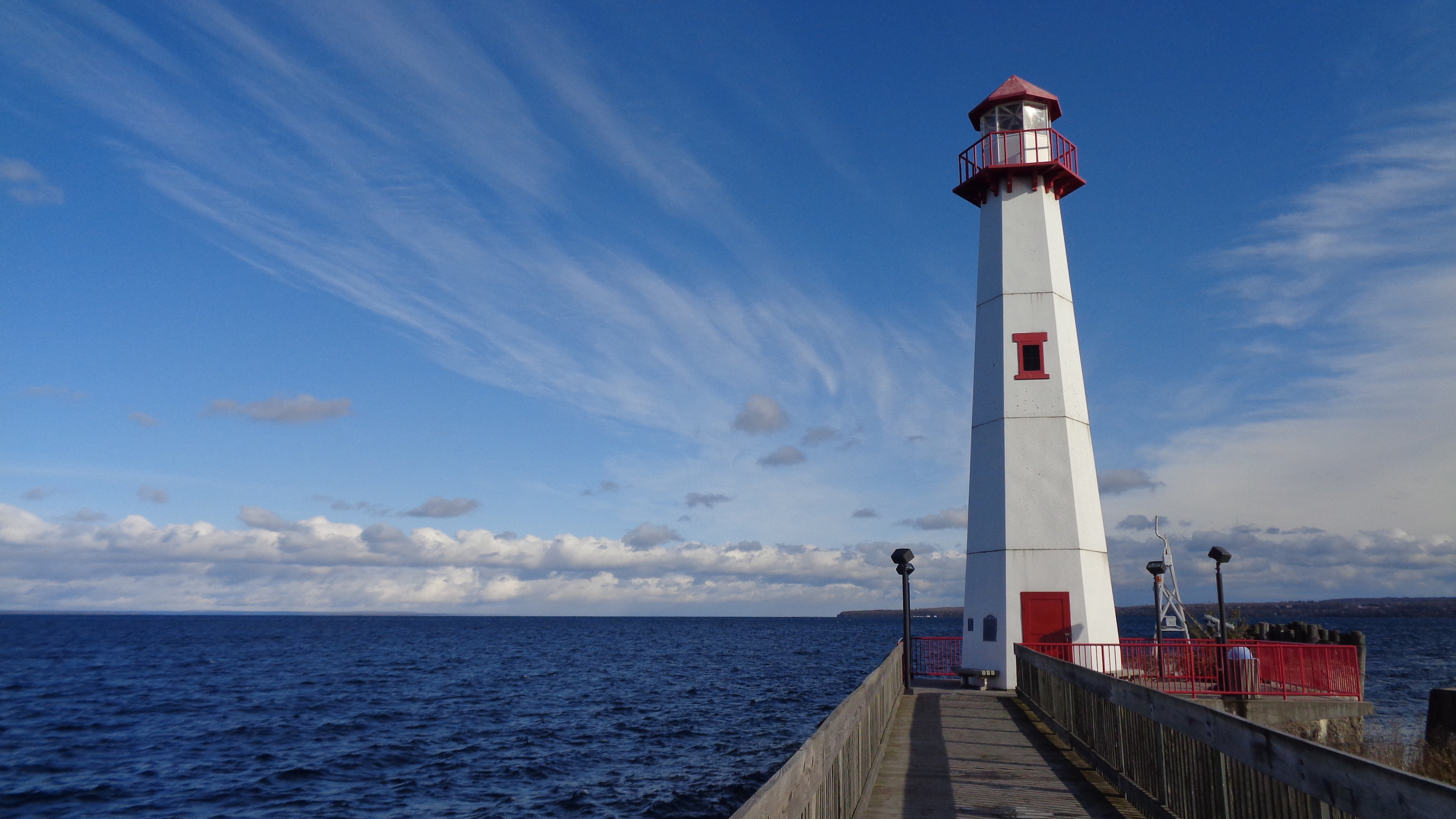 Depicted place: Wawatam Lighthouse